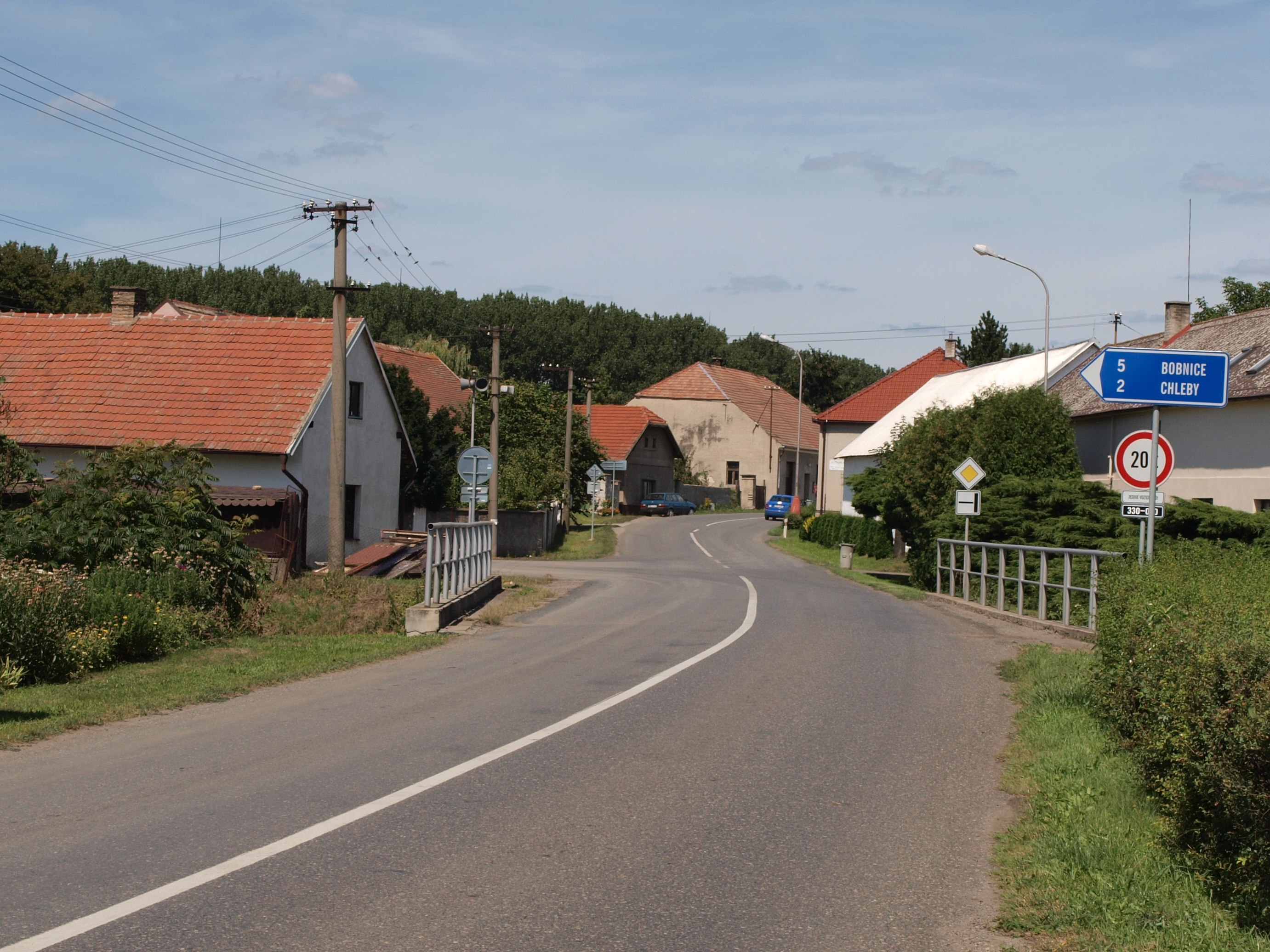 Bridge, Rašovice (part of Budiměřice), Nymburk District, Central Bohemian Region